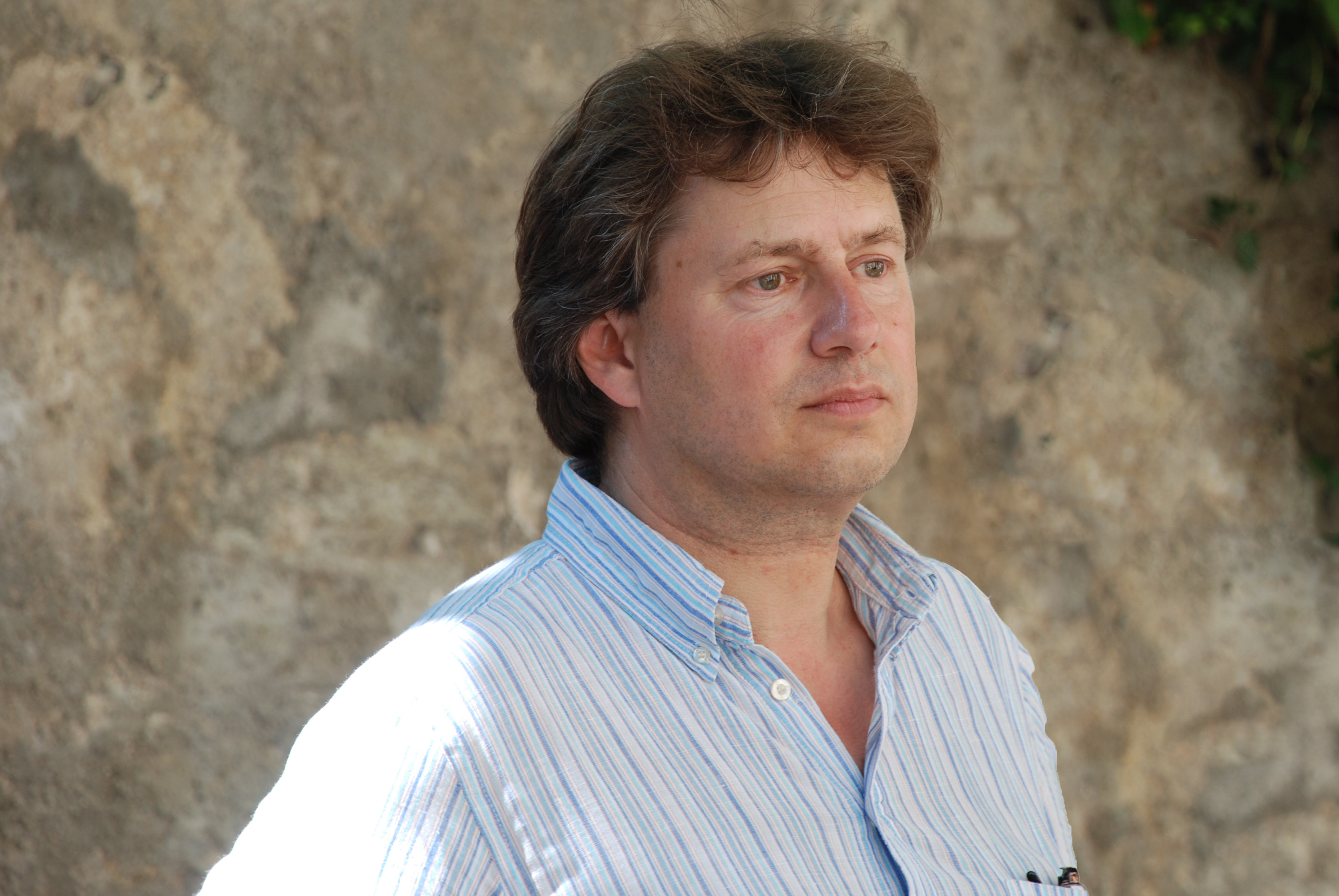 Economist Reiner Eichenberger